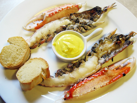 Sjøkrepstallerken 2